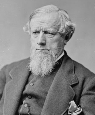 Allen G. Thurman. Library of Congress description: "Thurman, Hon. Allen G. Senator of Ohio. Born in Lynchburg, Va. Nov 13, 1813".